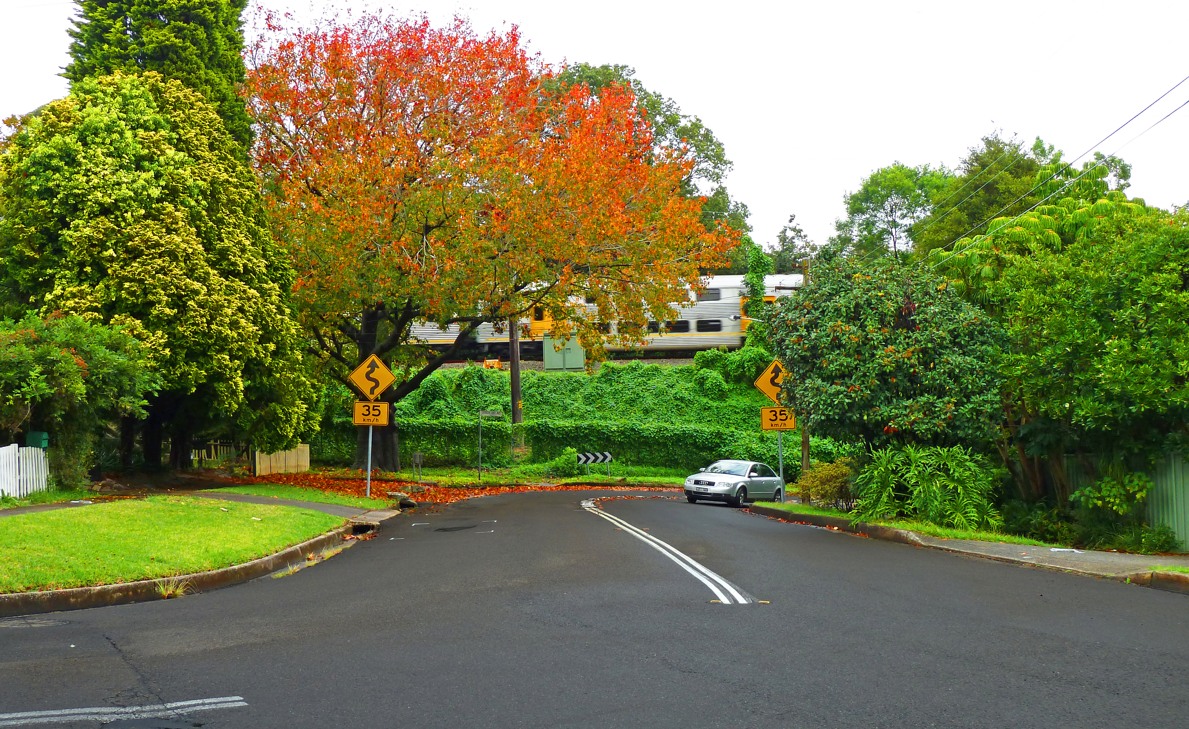 Strickland Avenue, Lindfield, New South Wales, Australia.